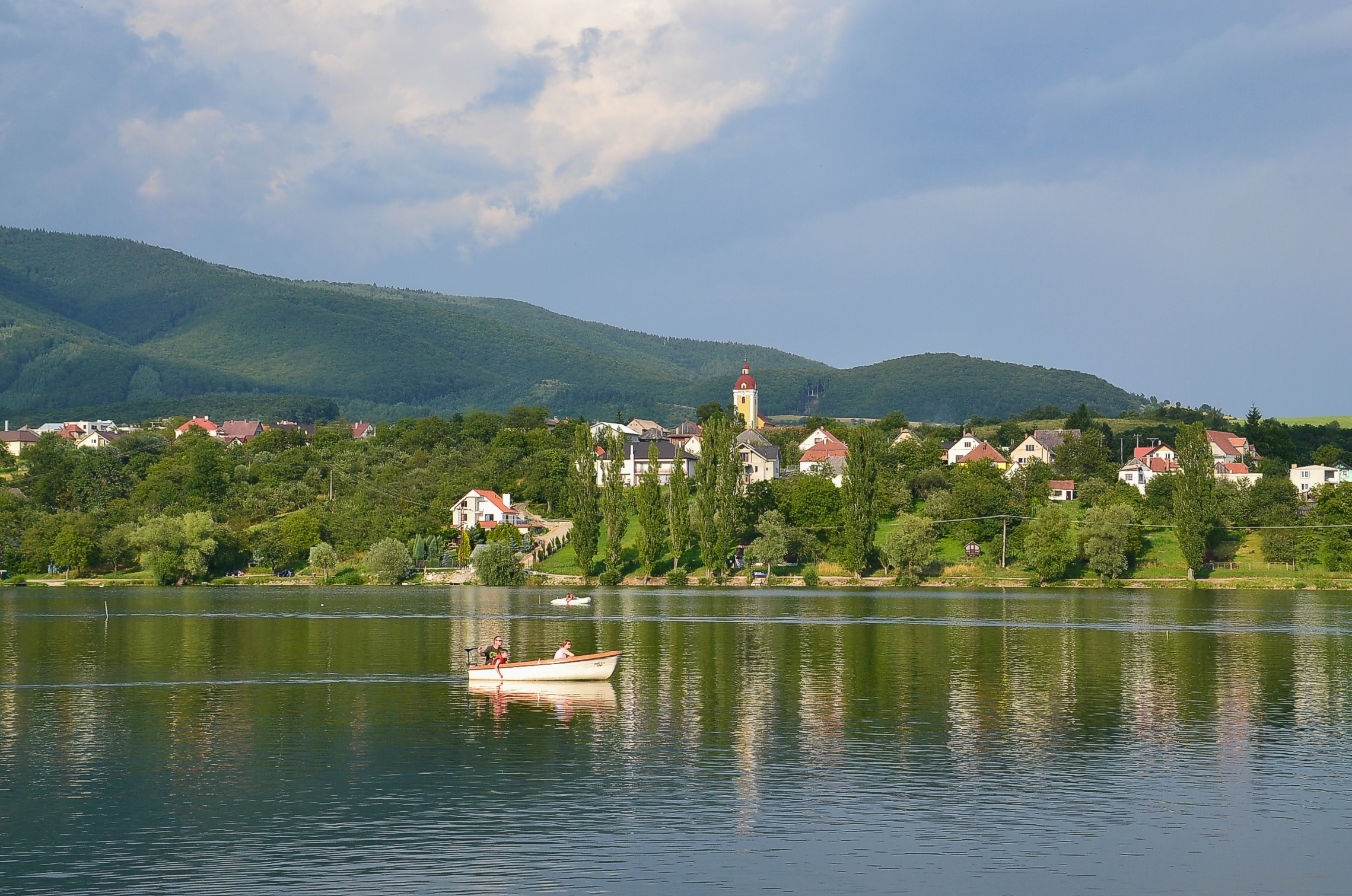 Nitrianske Rudno Reservoir, Slovakia